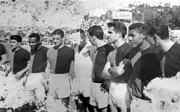 Friendly match, Santos F.C. visiting Newell's Old Boys at Parque Independencia.